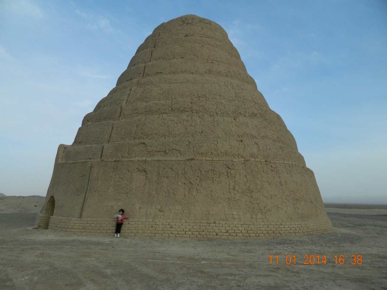 ancient refrigrator